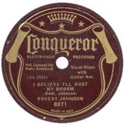 A record of Robert Johnson's I Belive I'll Dust My Broom, issued by Conqueror Records